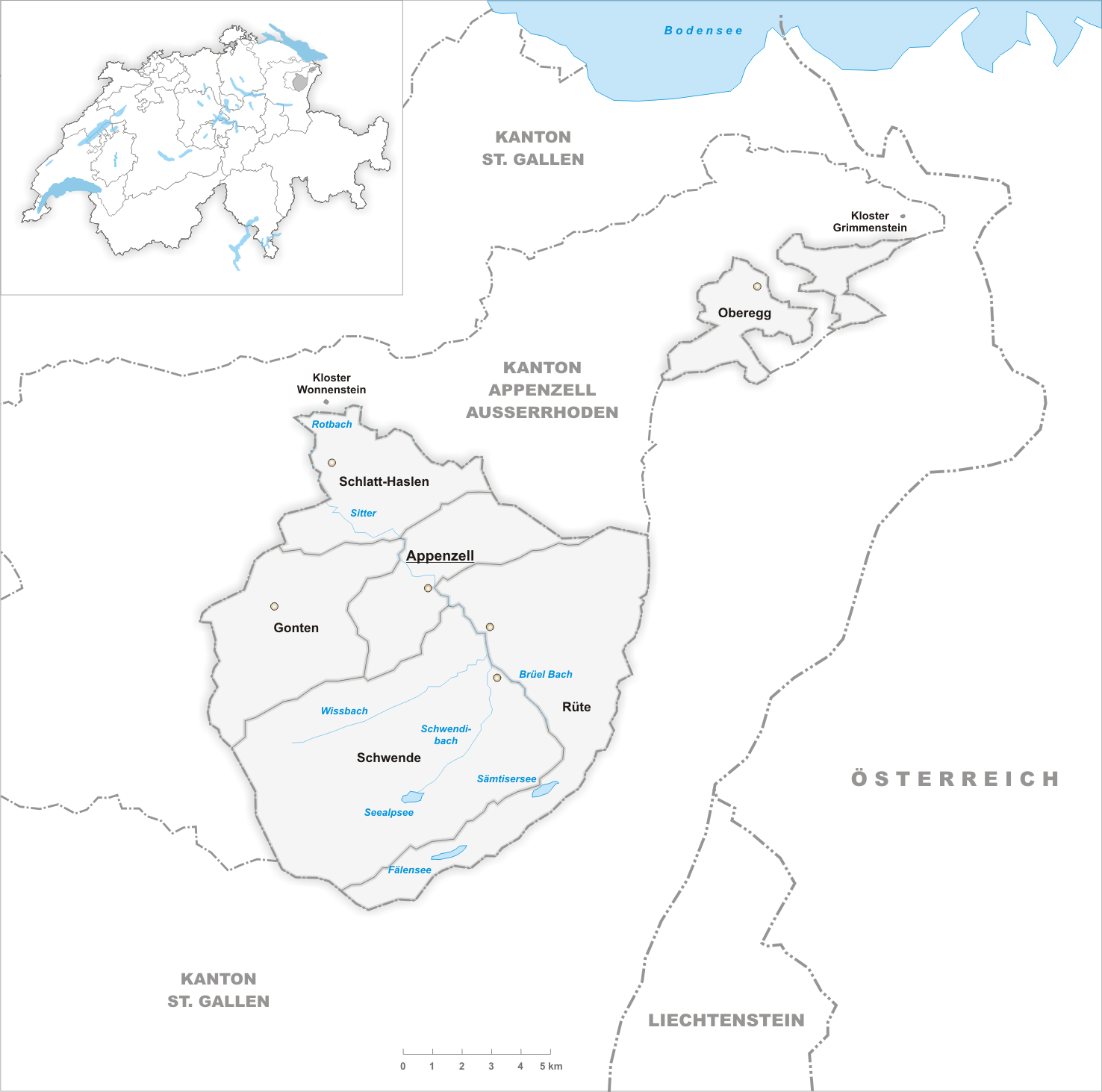 Municipalities in the canton of Appenzell Innerrhoden